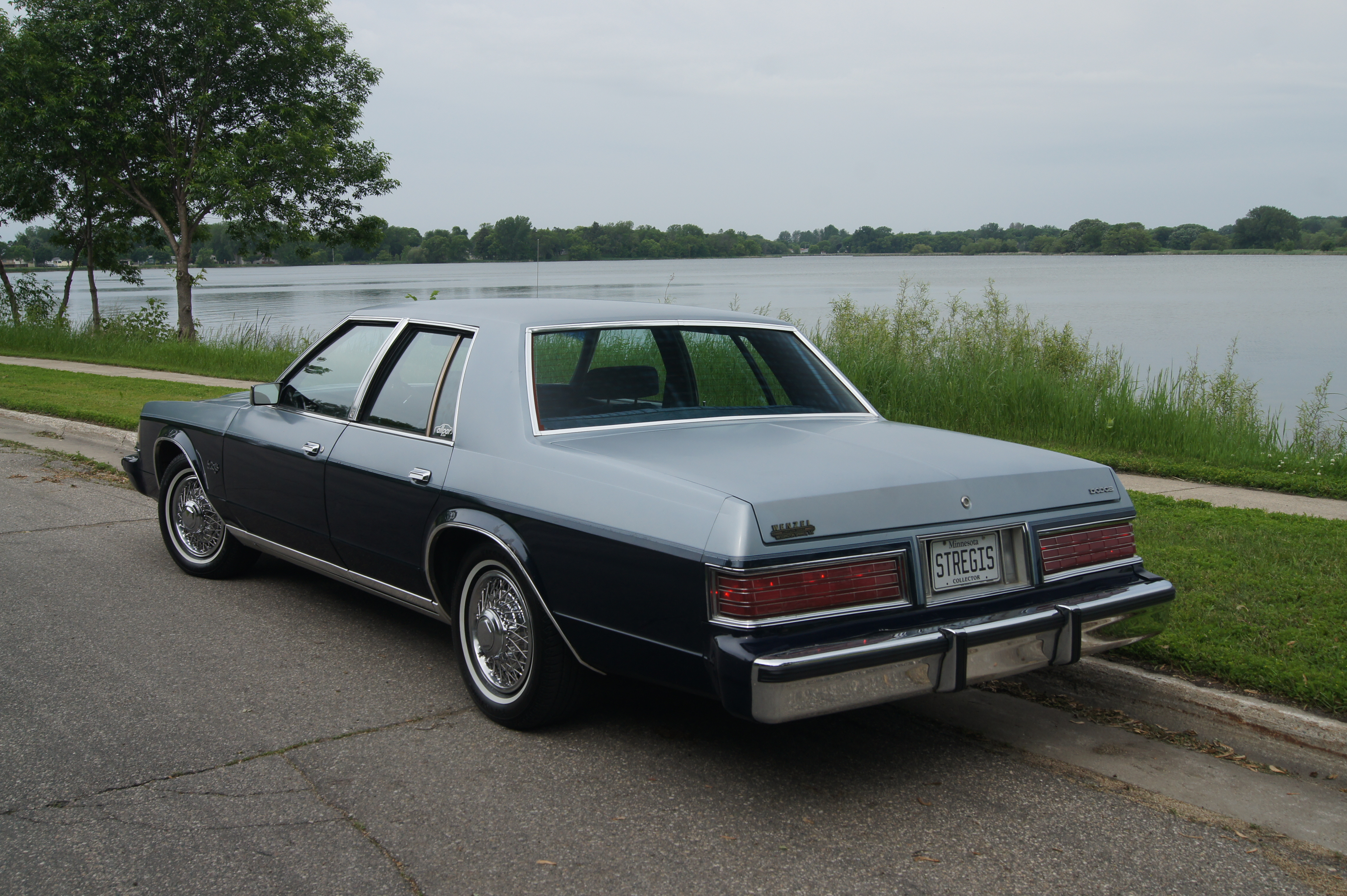 Spiffed up the St.Regis, since we are heading to 10,000 Lakes Concours d'Elegance tomorrow. Of course as spectators only, but might as well try our best to fit in. I am sure I will get a few pictures there, but in the mean time: Click here for more car pictures at my Flickr site.